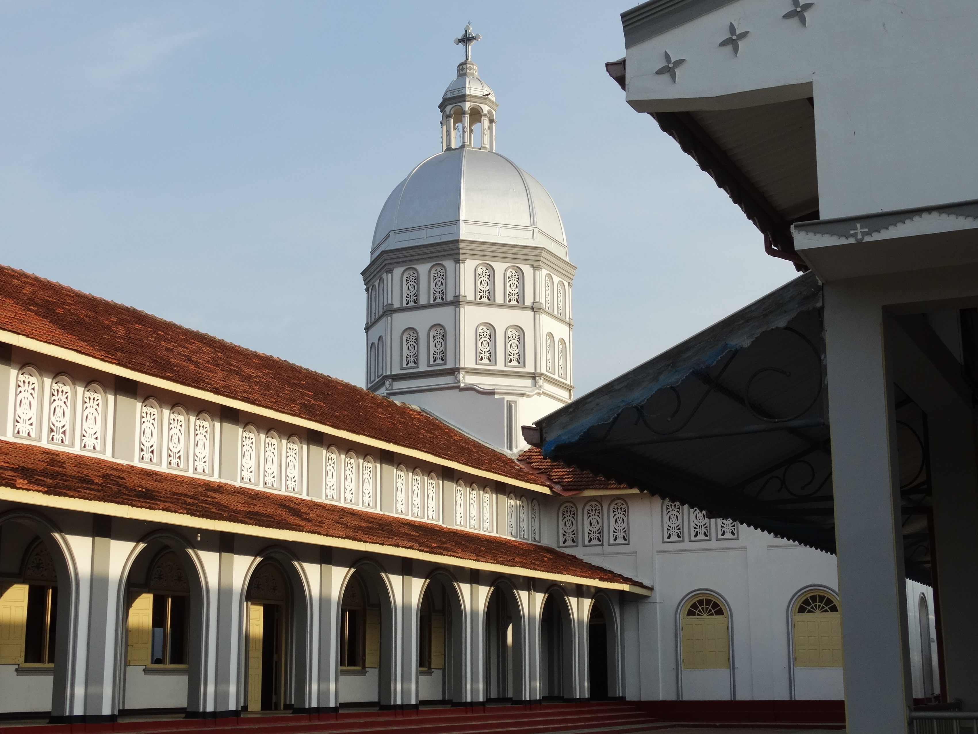 An image of St Sebastian's Cathedral, Mannar, Sri Lanka. Straightned and cropped from the original This is a retouched picture, which means that it has been digitally altered from its original version.